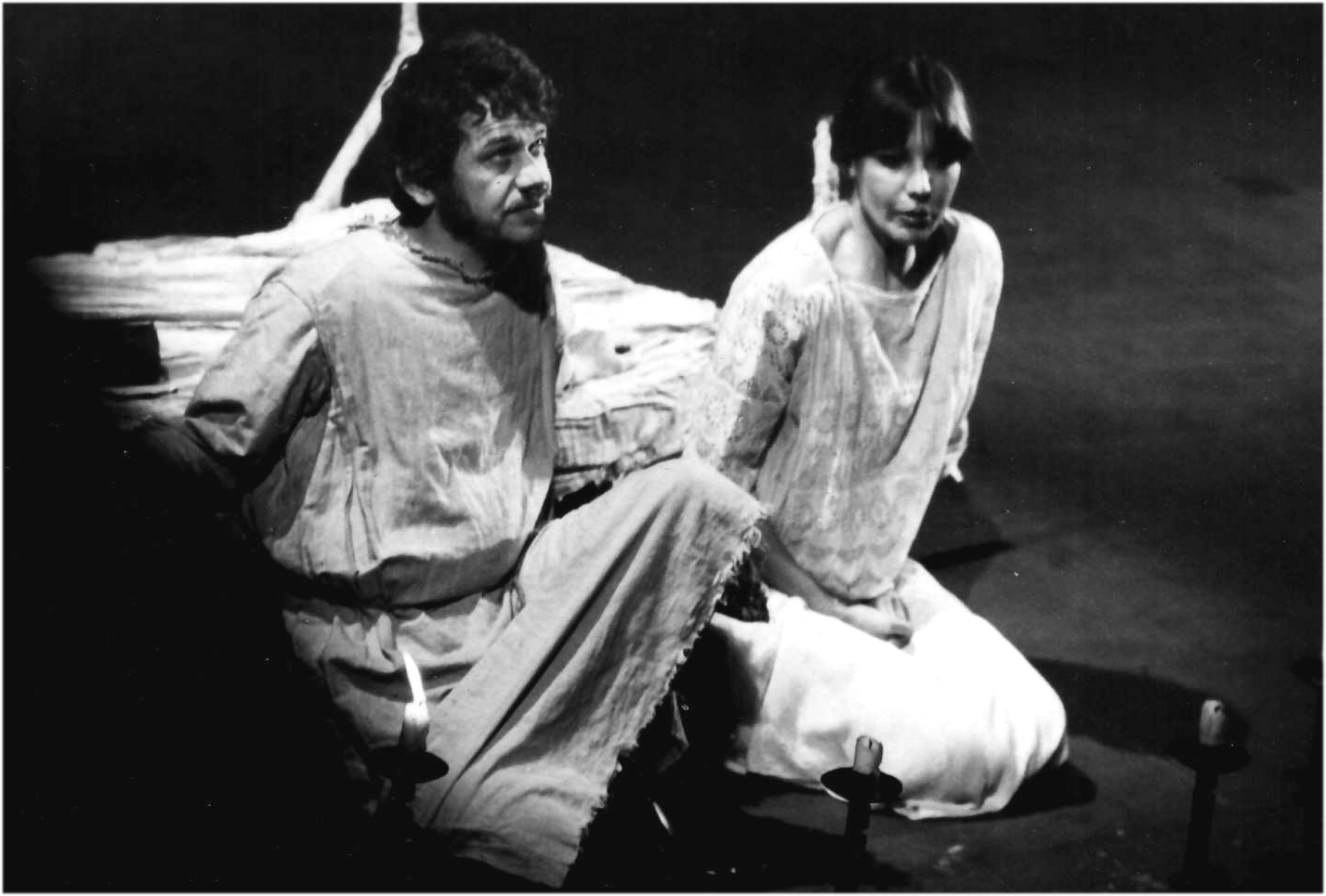 Sándor Héjja (1942–1996) and Kati Panek (1957) in the piece: Master Manole of Lucian Blaga